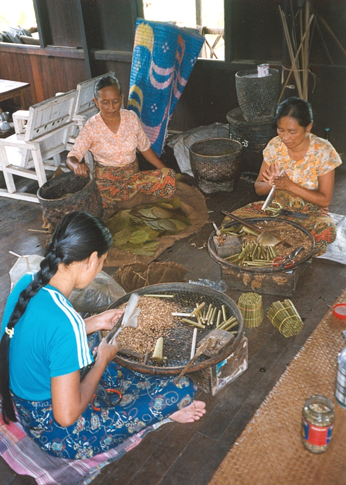 Preparation of cheroot cigars, Inle Lake, Burma.